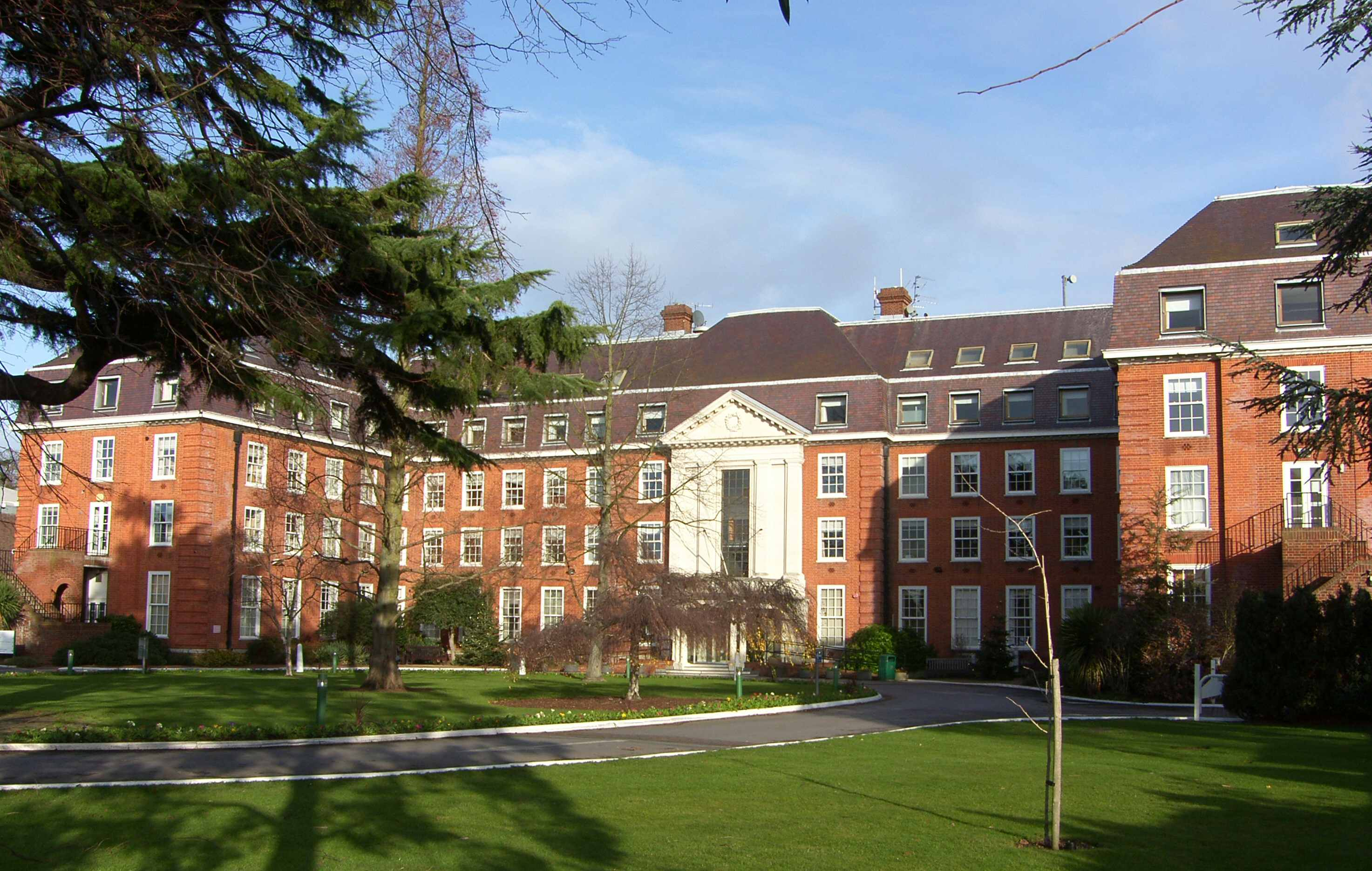 The 1938 Lensbury clubhouse, part of Royal Dutch Shell